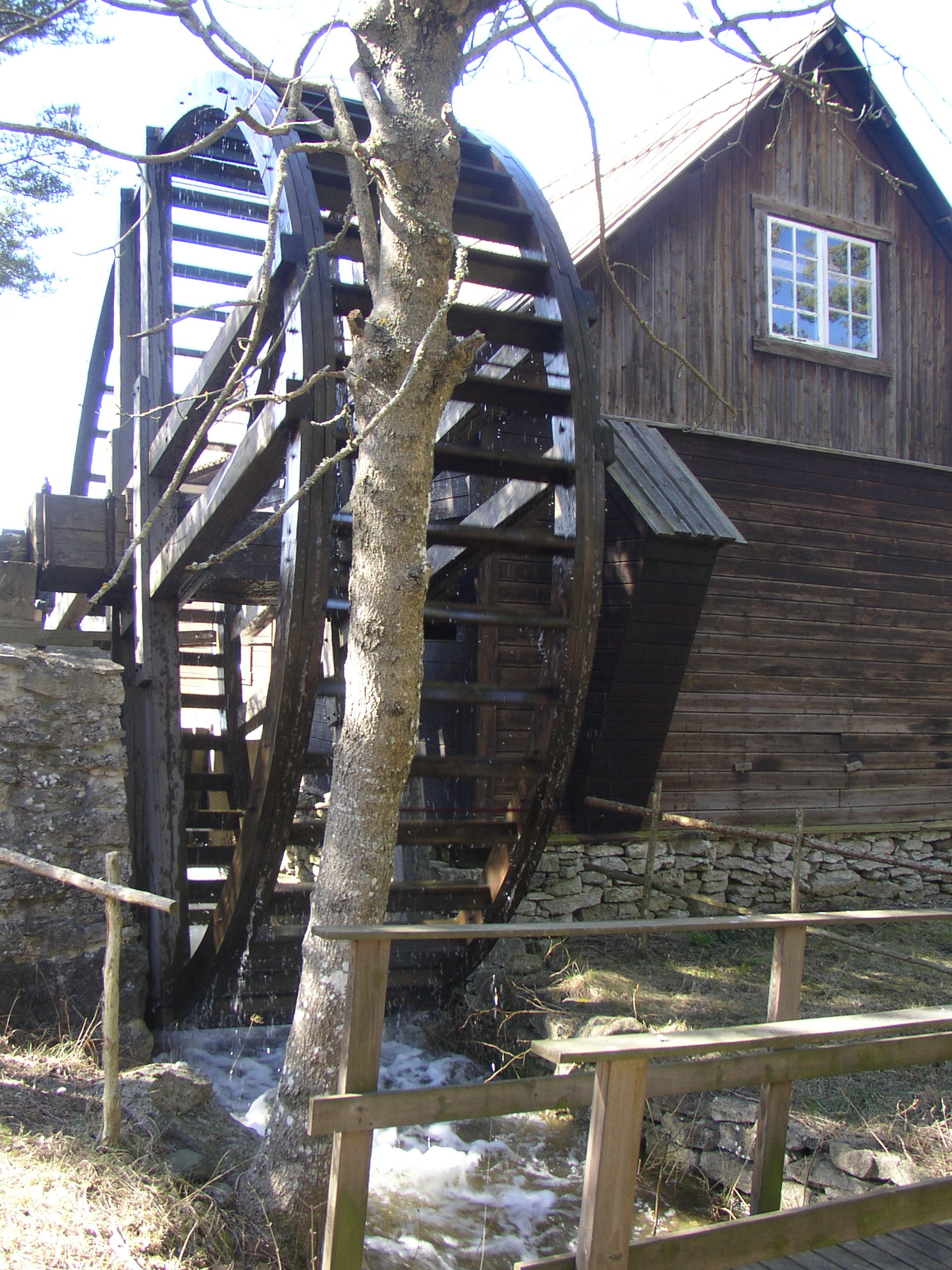 Aner watermill in Boge, Gotland, Sweden.